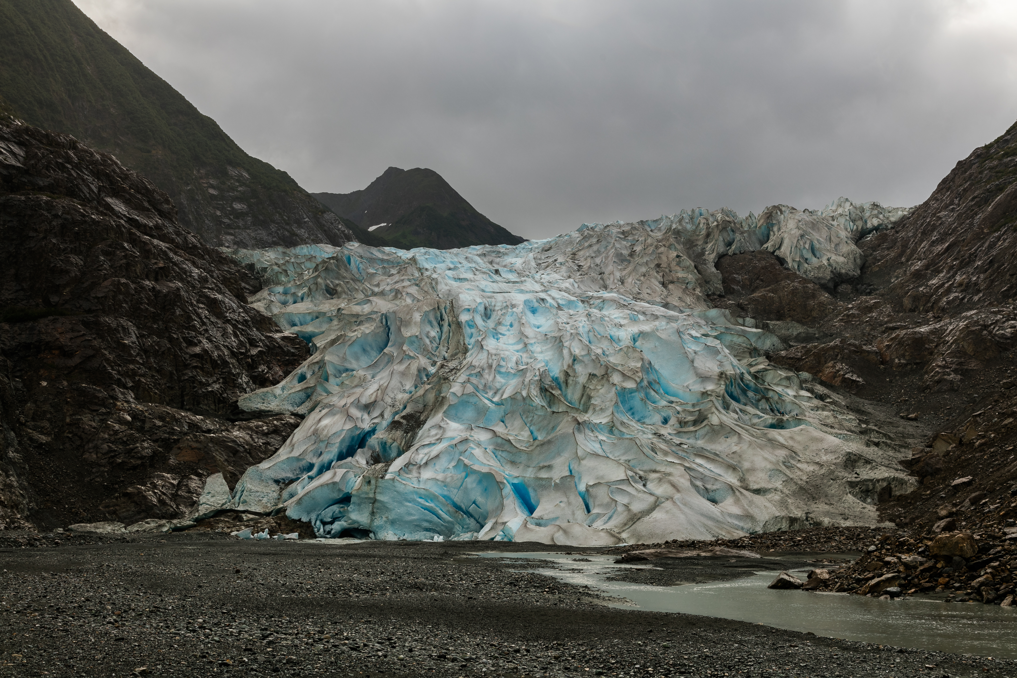 Davidson Glacier, Haines, Alaska, United States. The glacier, a touristic attraction in Haines, was discovered by 1867.